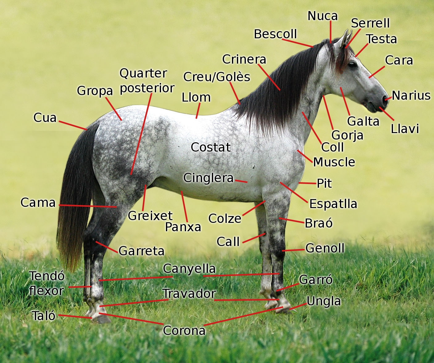 External parts of a horse's body anatomy nomenclature in Catalan.